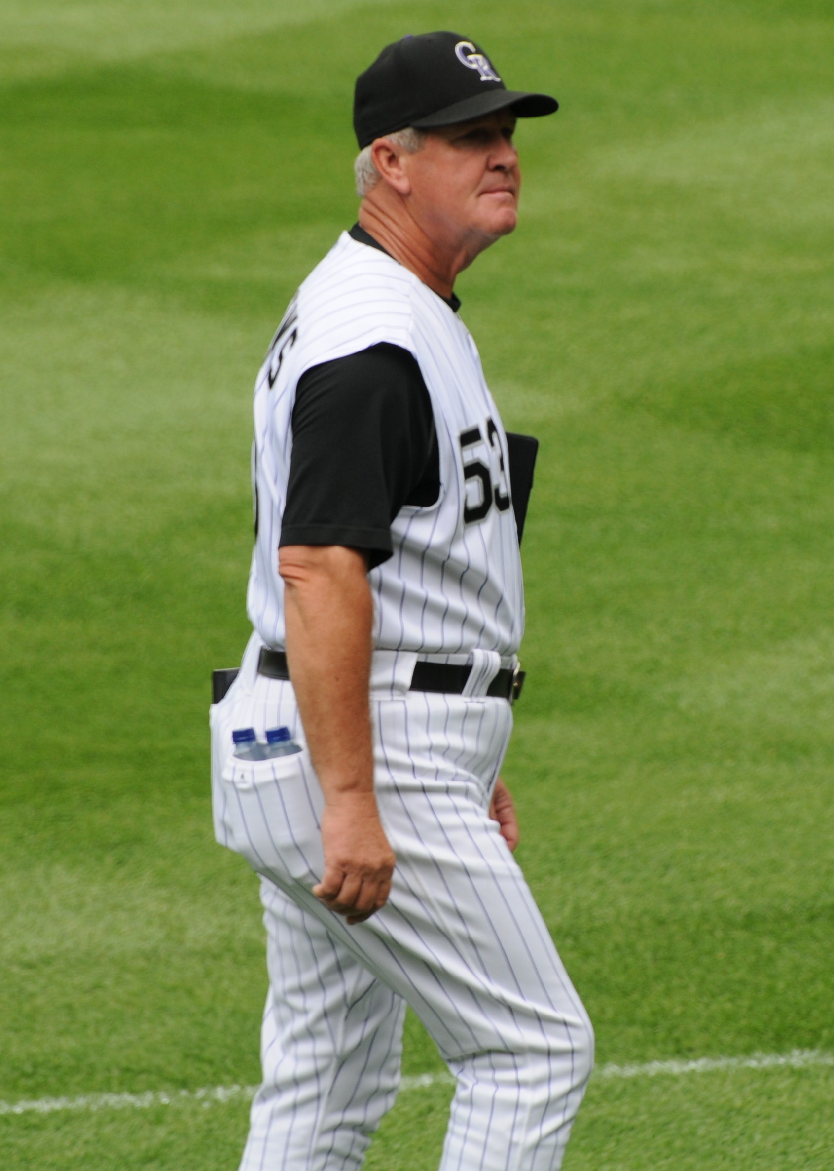 Description own work DateSourceI created this work entirely by myself.AuthorOnetwo1 (talk) 15:53, 8 August 2008 . . Onetwo1 . . 1,691×2,372 (517 KB) own work